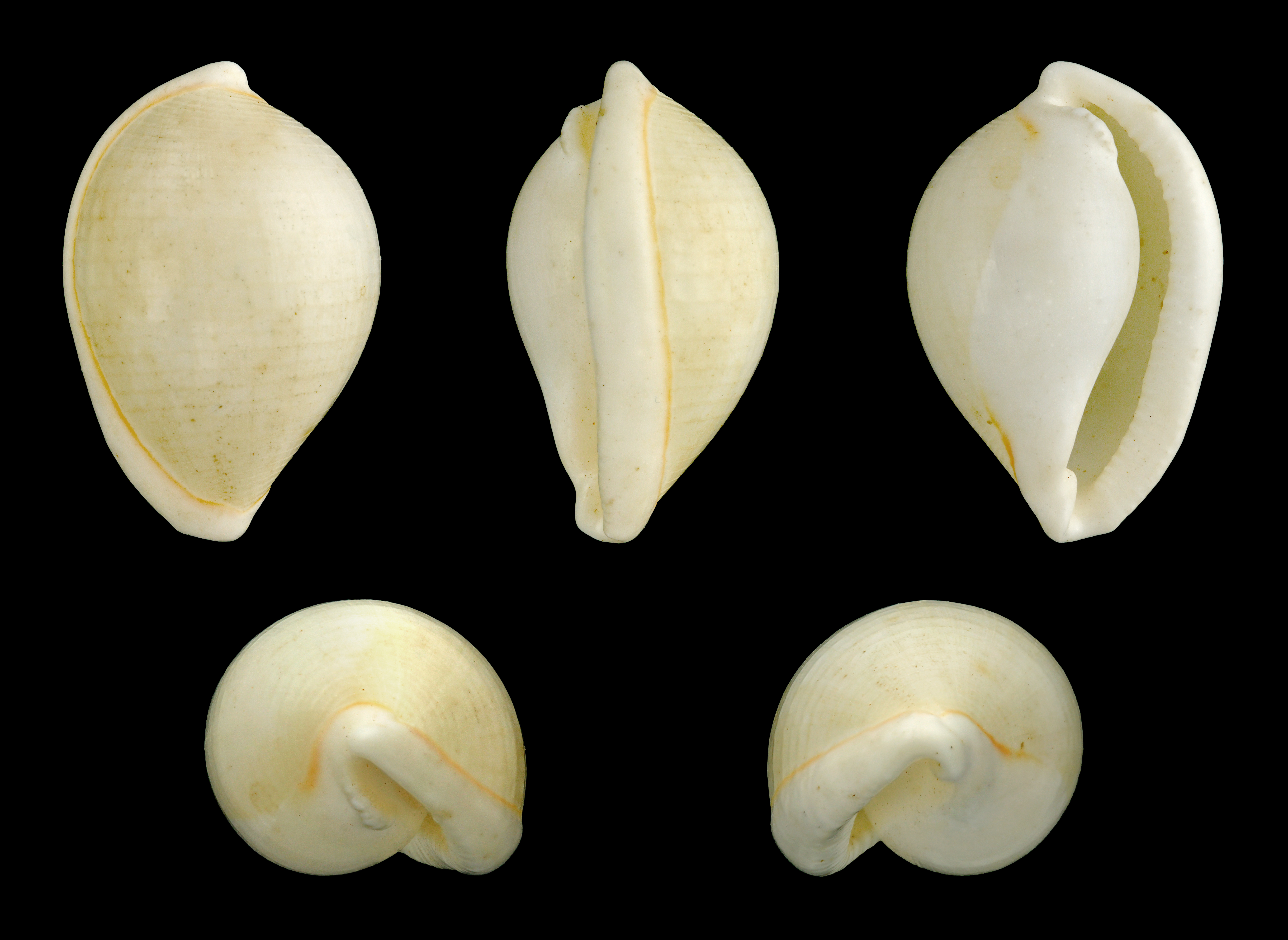 Chinese egg snail; Length 2.2 cm; Originating from Pescadores Island, Taiwan; Shell of own collection, therefore not geocoded. Dorsal, lateral (right side), ventral, back, and front view.